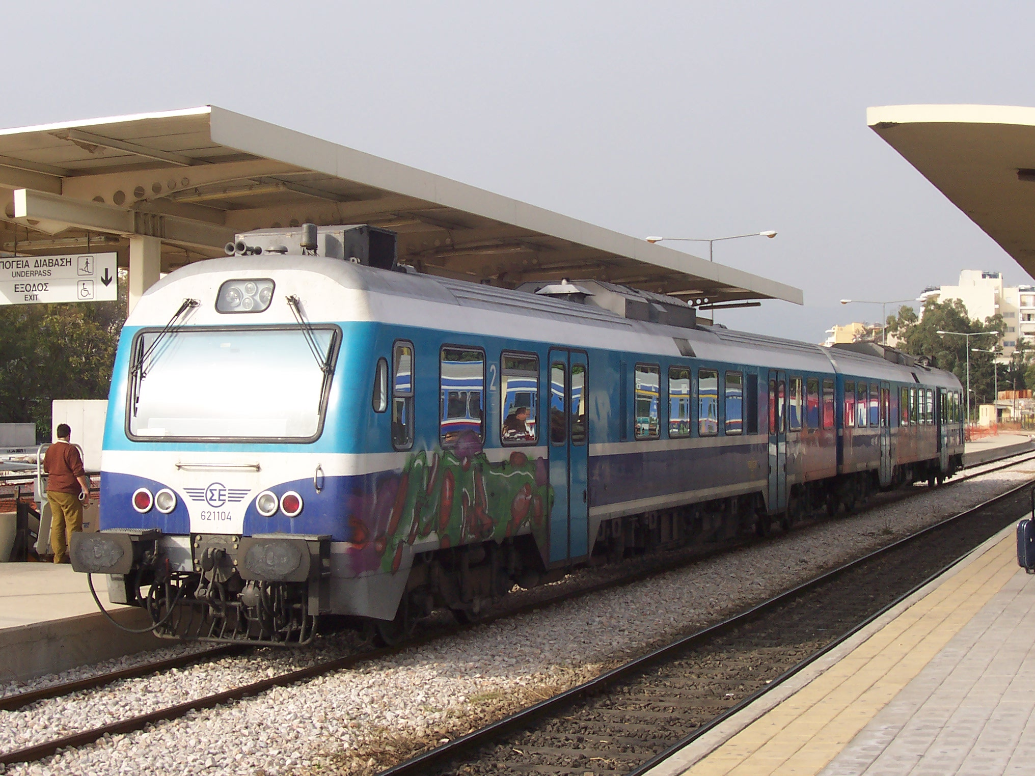 621 series DMU unit in railway station in Athens, Greece